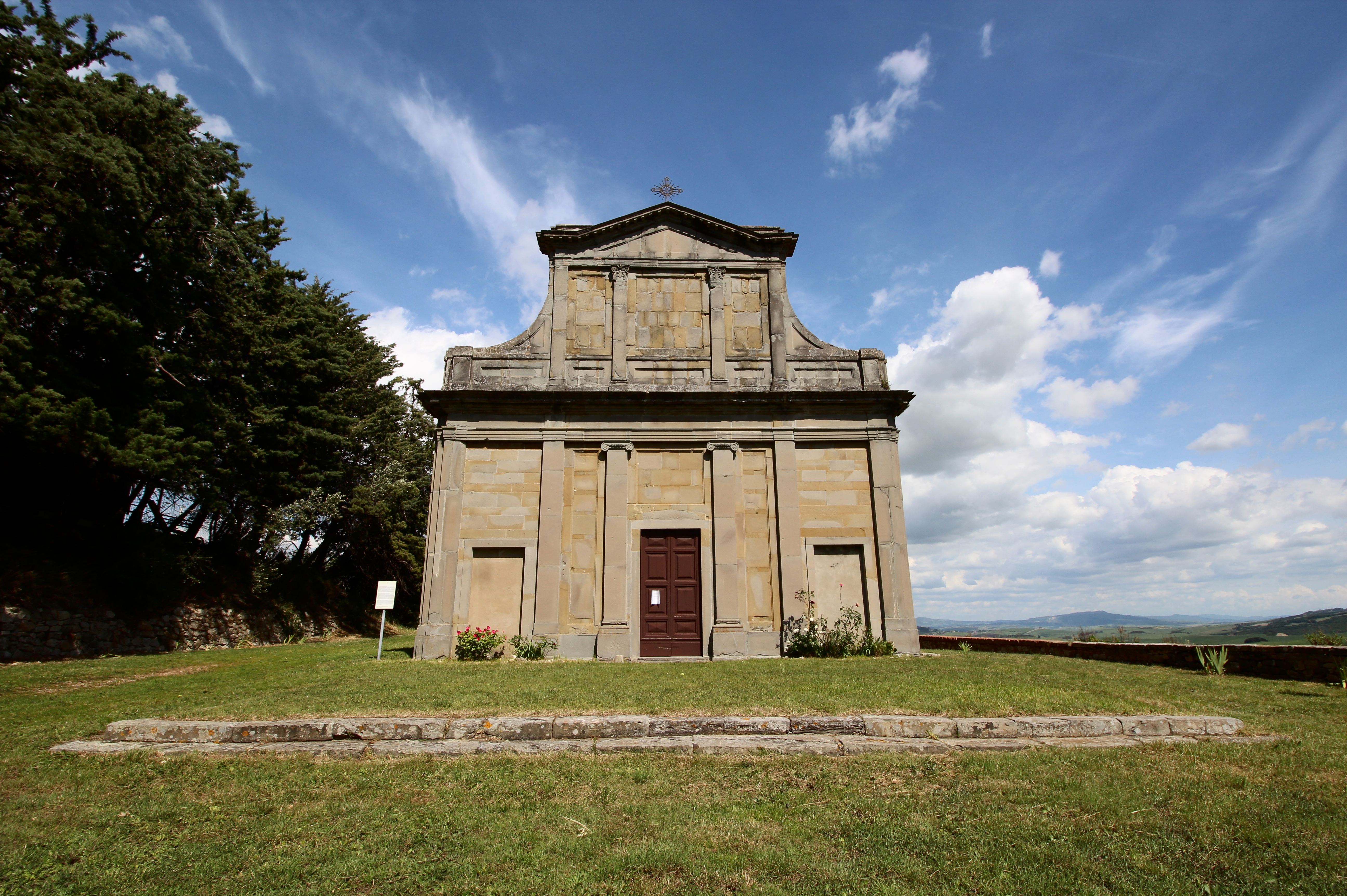 Sanctuary Madonna del Carmine, just outside Chianni, Province of Pisa, Tuscany, Italy